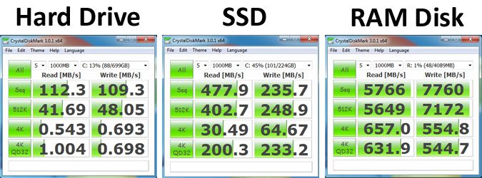 SSD vs HDD vs RAMDrive